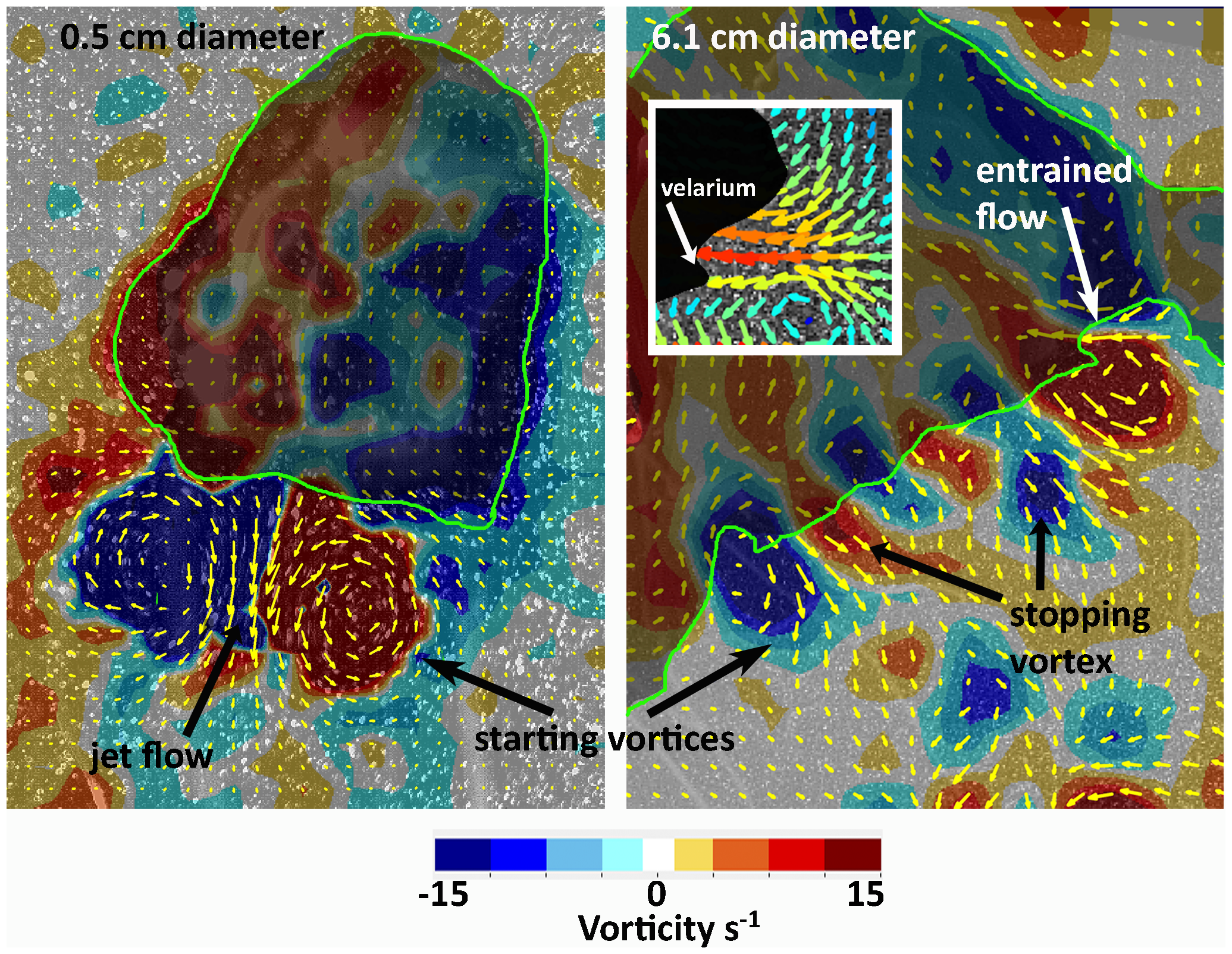 Vorticity contour and velocity vector plot of flow during maximum contraction for a small and large Chiropsella bronzie. Flow emerging from the bell of the small medusa is characterized a simple jet (i.e.; jet of fluid and a single vortex ring). Flow generated by the large medusa is more complex with the stopping vortex from the previous swim cycle interacting with the starting vortex generated during bell contraction and flow entrained from the bell margin by the velarium (inset) contributing to the starting vortex. Inset: close-up of entrained flow in region adjacent to velarium. Note that the maximum velocities (red) are oriented toward the inflexion point of the velarium.